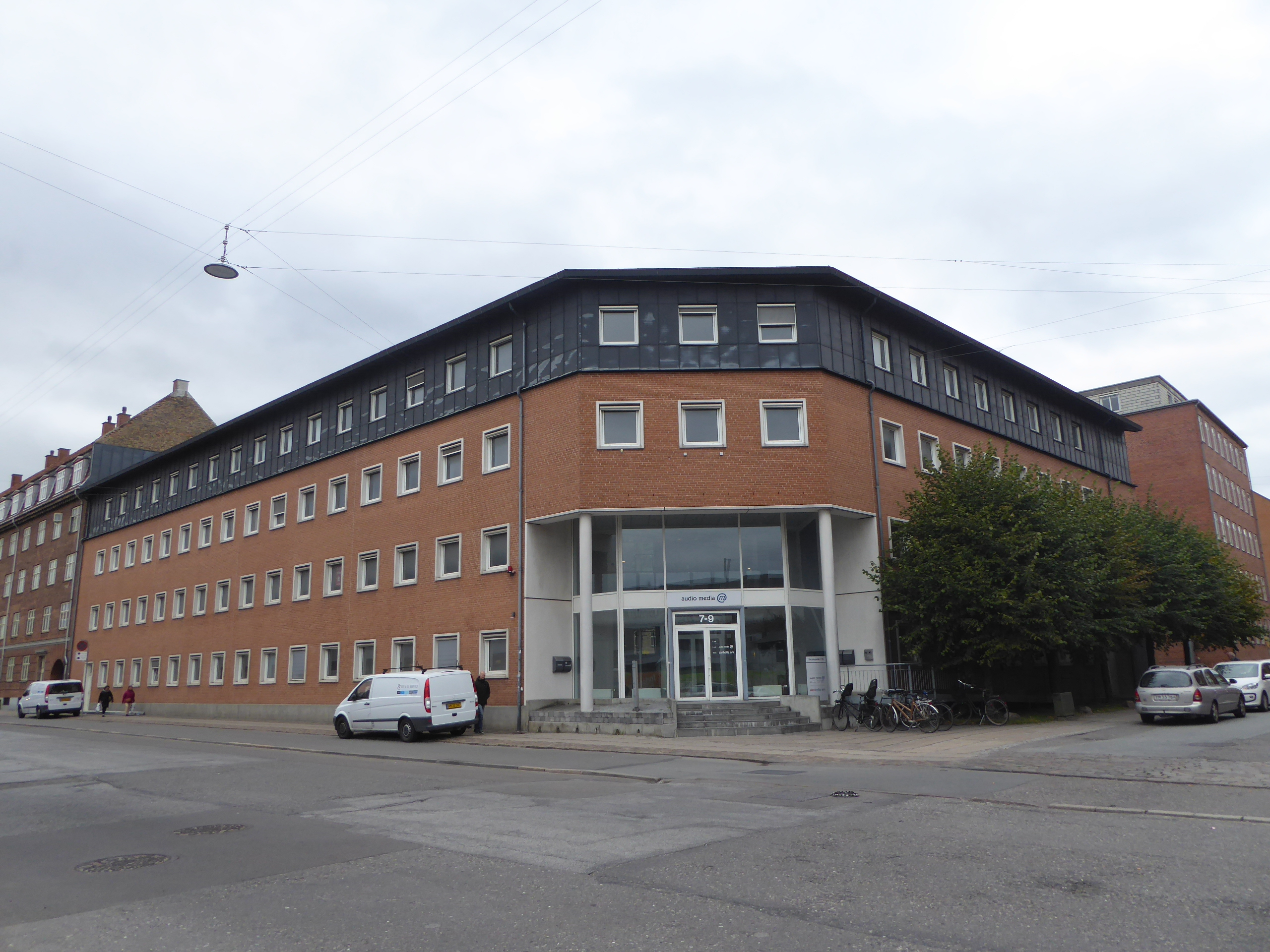 The publishing house Audio Media at the corner of Sejrøgade and Kristineberg in Østerbro in Copenhagen.